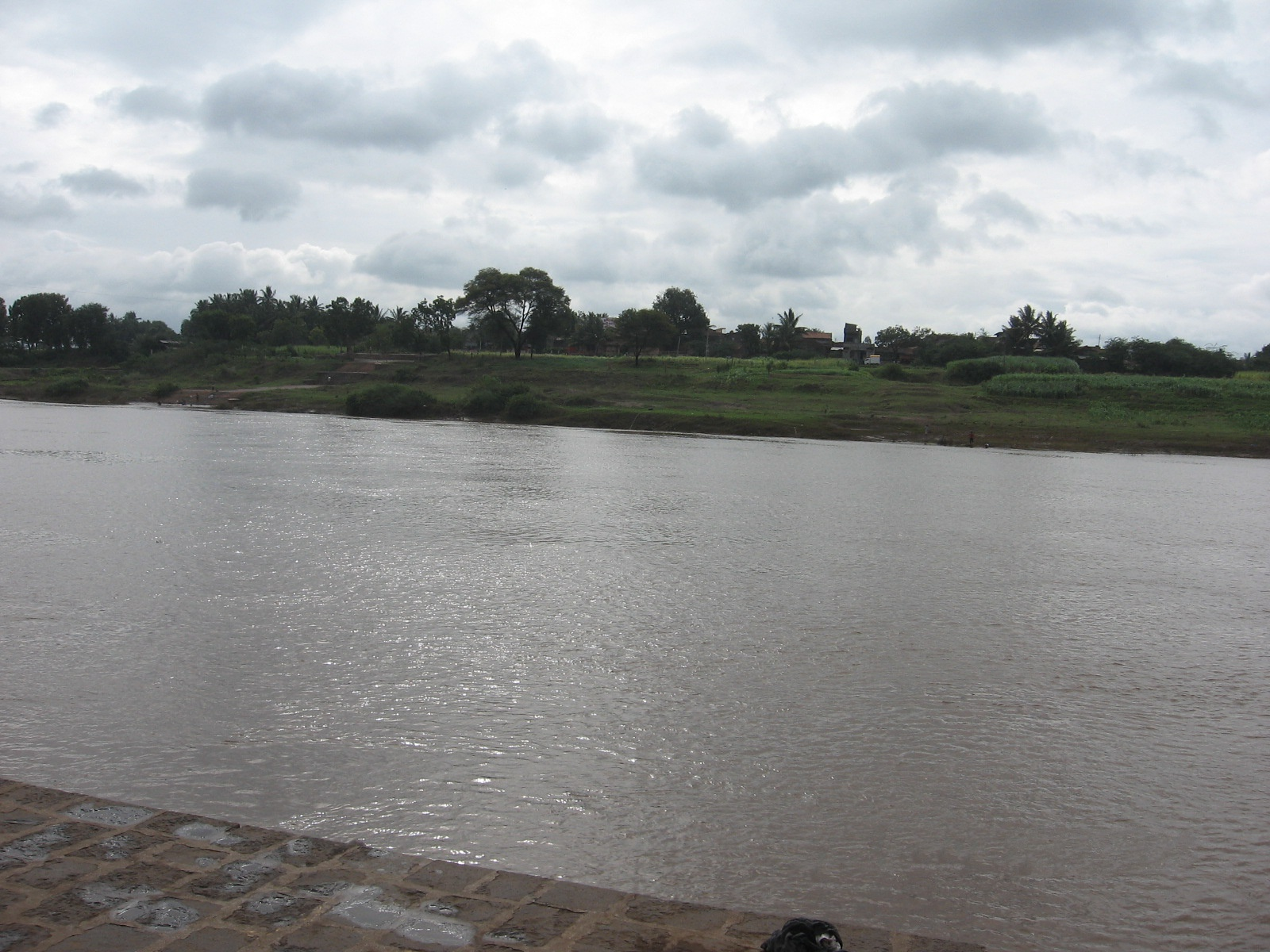 The Panchganga River at Narsobawadi, near its confluence with the Krishna River